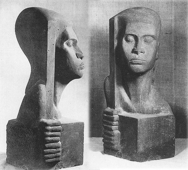 Gahazi (1940) by Yehiel Shemi.